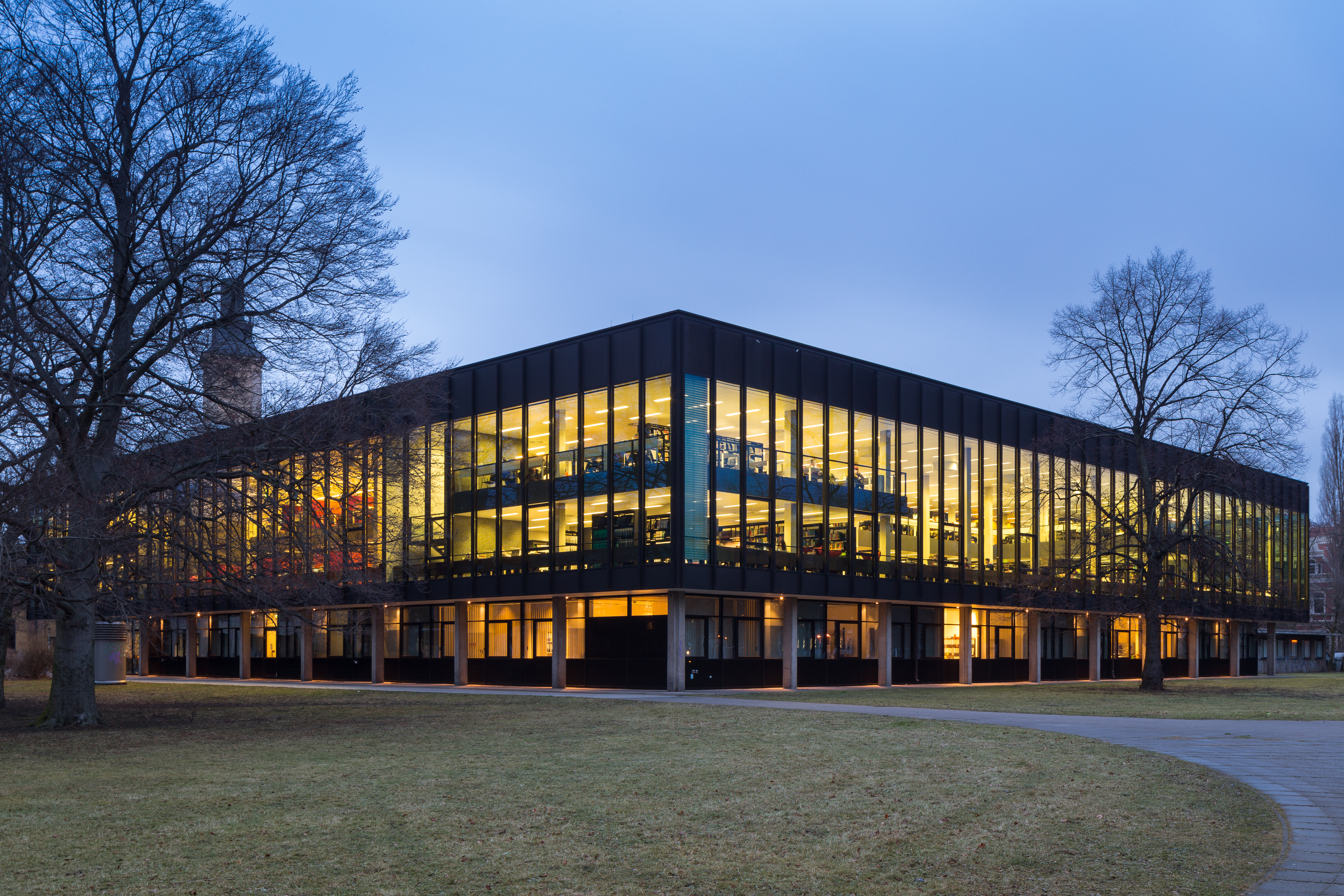 Library building of German National Library of Science and Technology / University Library Hannover (TIB / UB) located at Am Welfengarten no. 1B in Nordstadt district of Hanover, Germany.